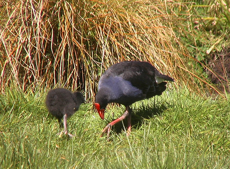 Pukeko (Porphyrio porphyrio melanotus) with young at Te Anau, New Zealand. Photgraphed on 22 November 2002.